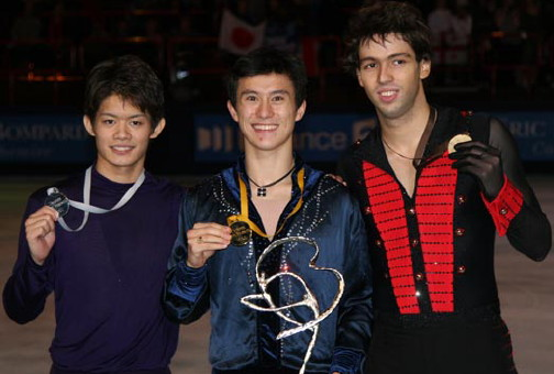 The men's podium at the 2008 Trophée Eric Bompard. From left to right: Takahiko Kozuka (2nd); Patrick Chan (1st); Alban Préaubert (3rd)